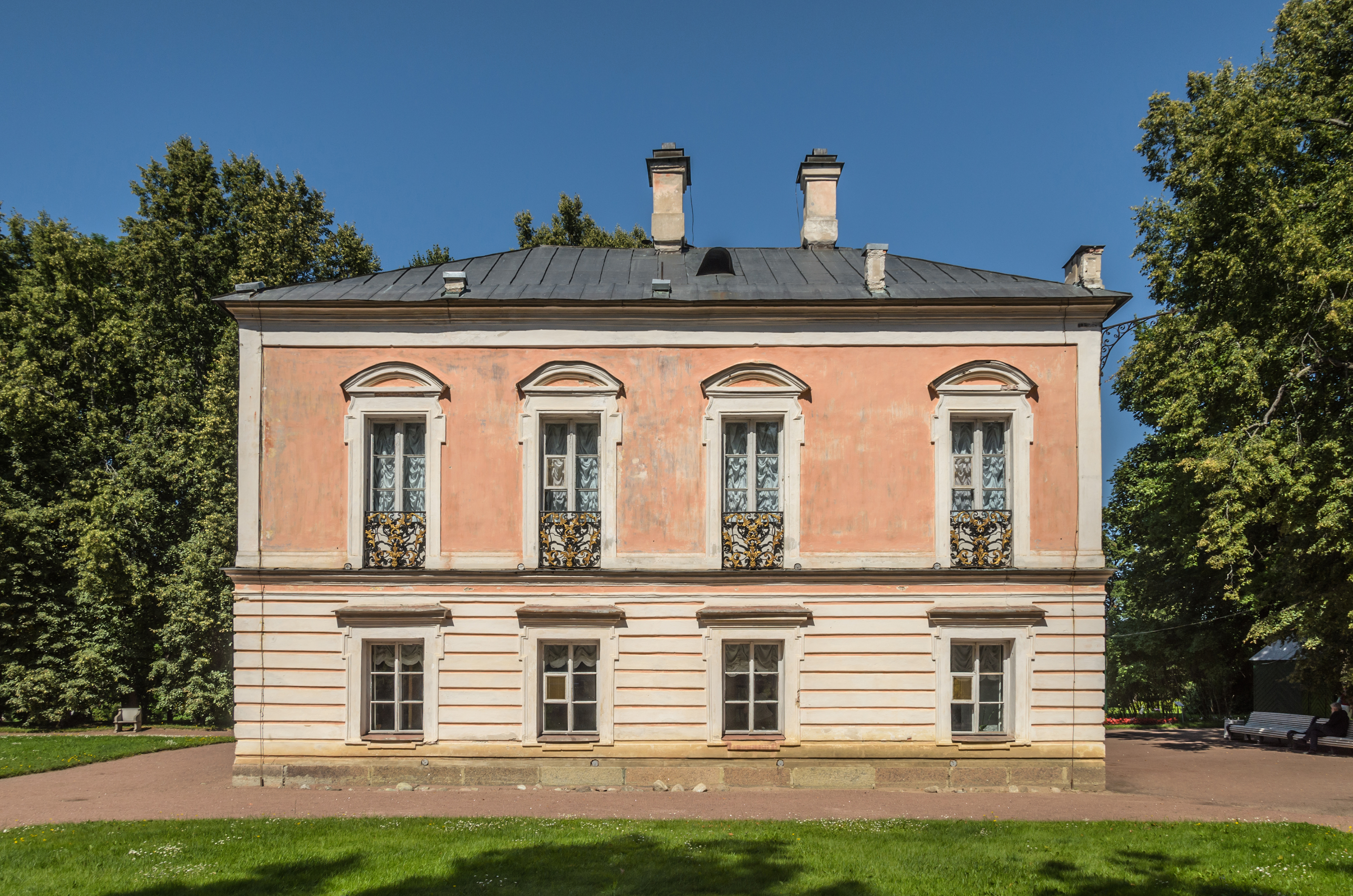 Peter III Palace in Oranienbaum Park